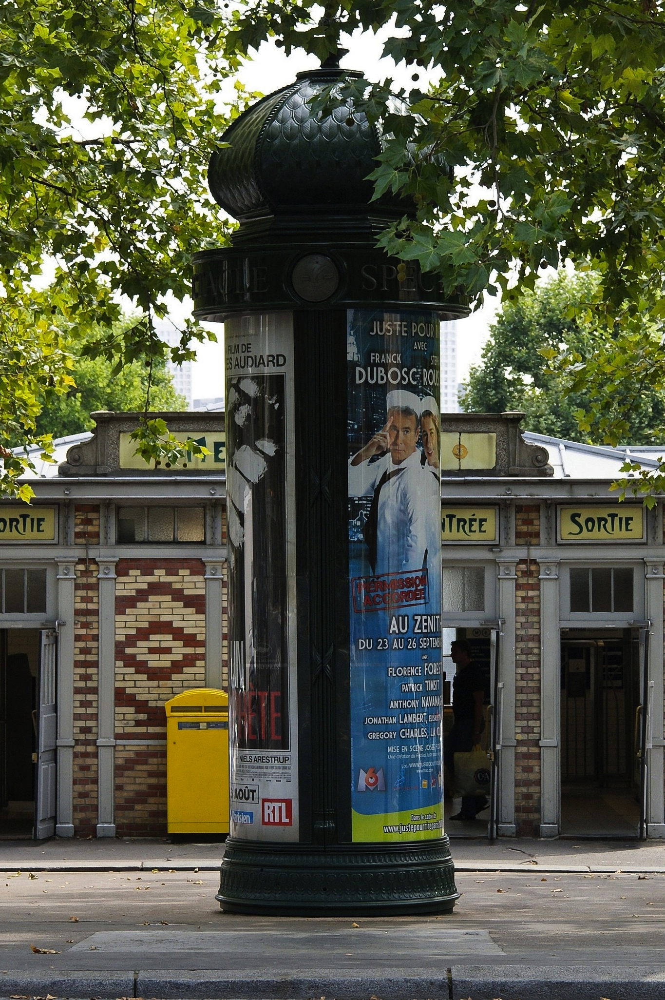 Morris column at the entrance of the metro St. Jacques in Paris.